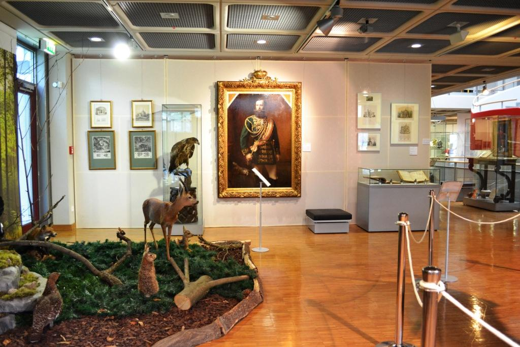 Exhibition of the Upper Silesian State Museum about nobleness in Silesia.